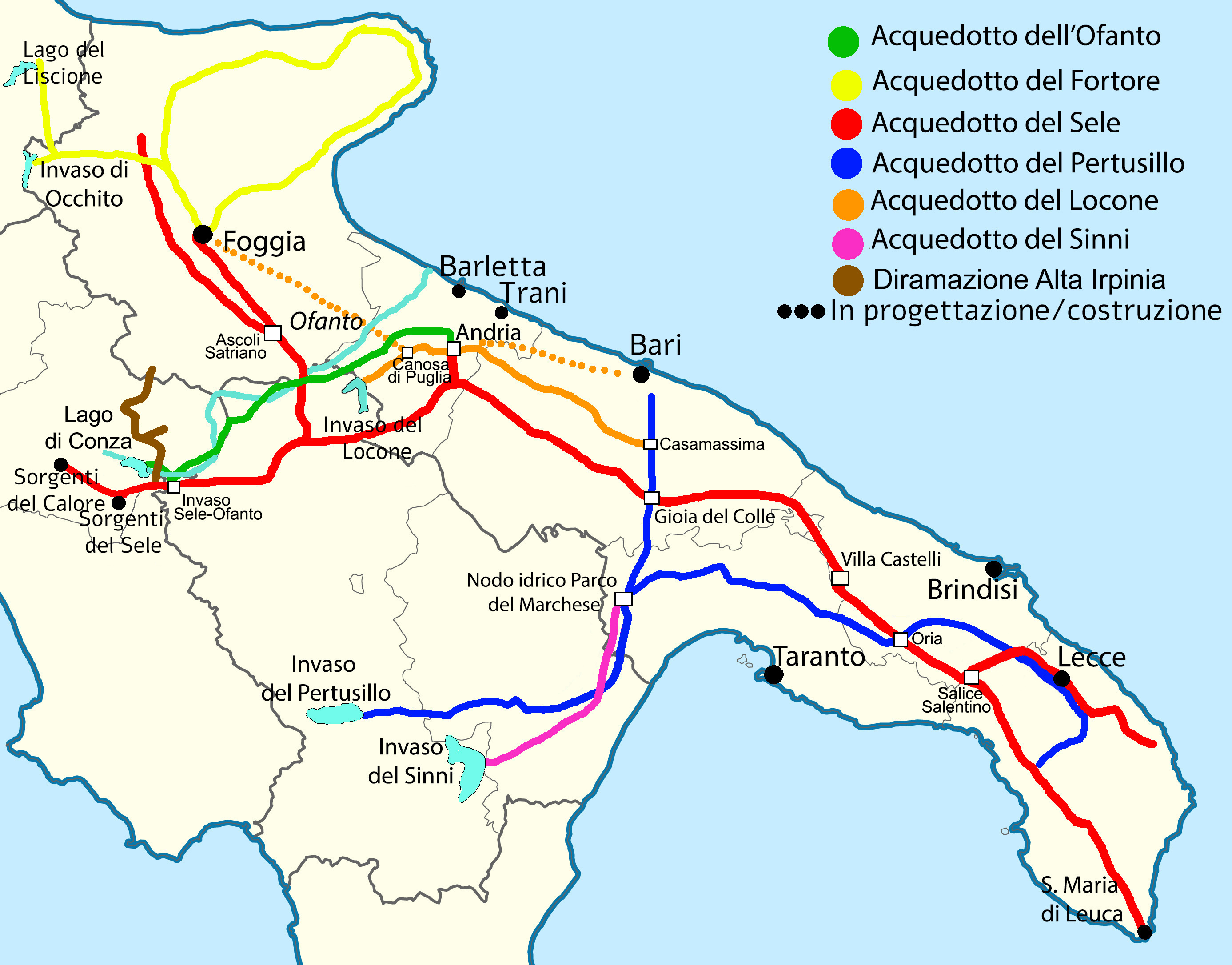 This is a planimetry of the Acquedotto Pugliese.